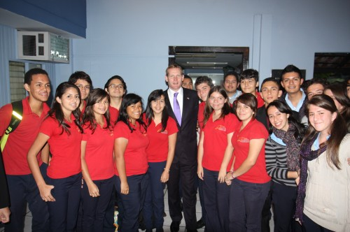 Jeremy Brown with Climate Change students in Costa Rica